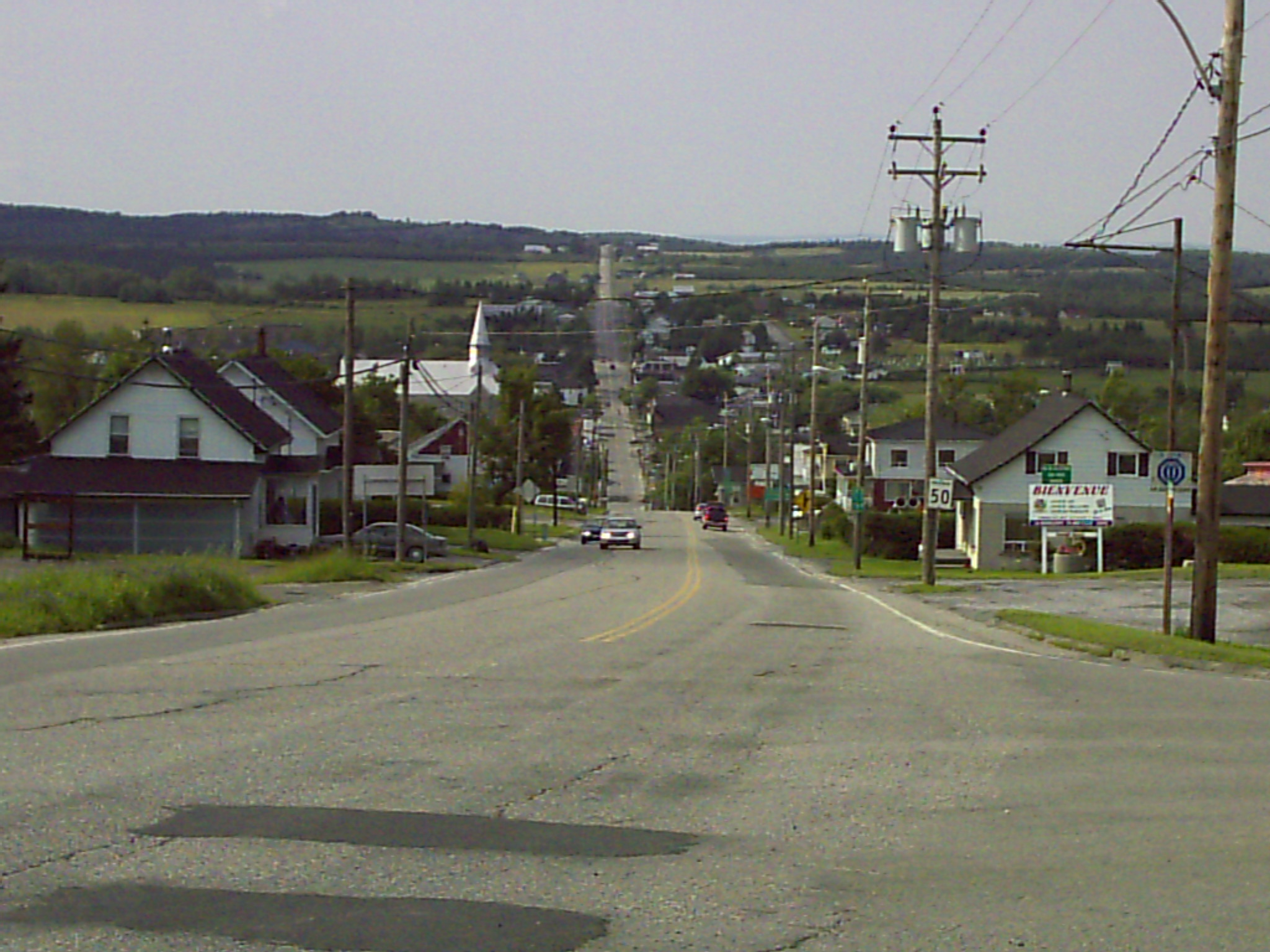 Town of La Guadeloupe